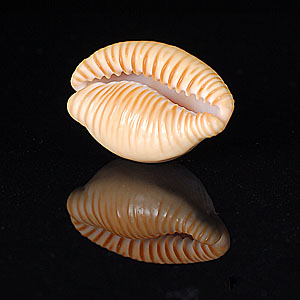 Cypraeidae Cypraeovula fuscodentata